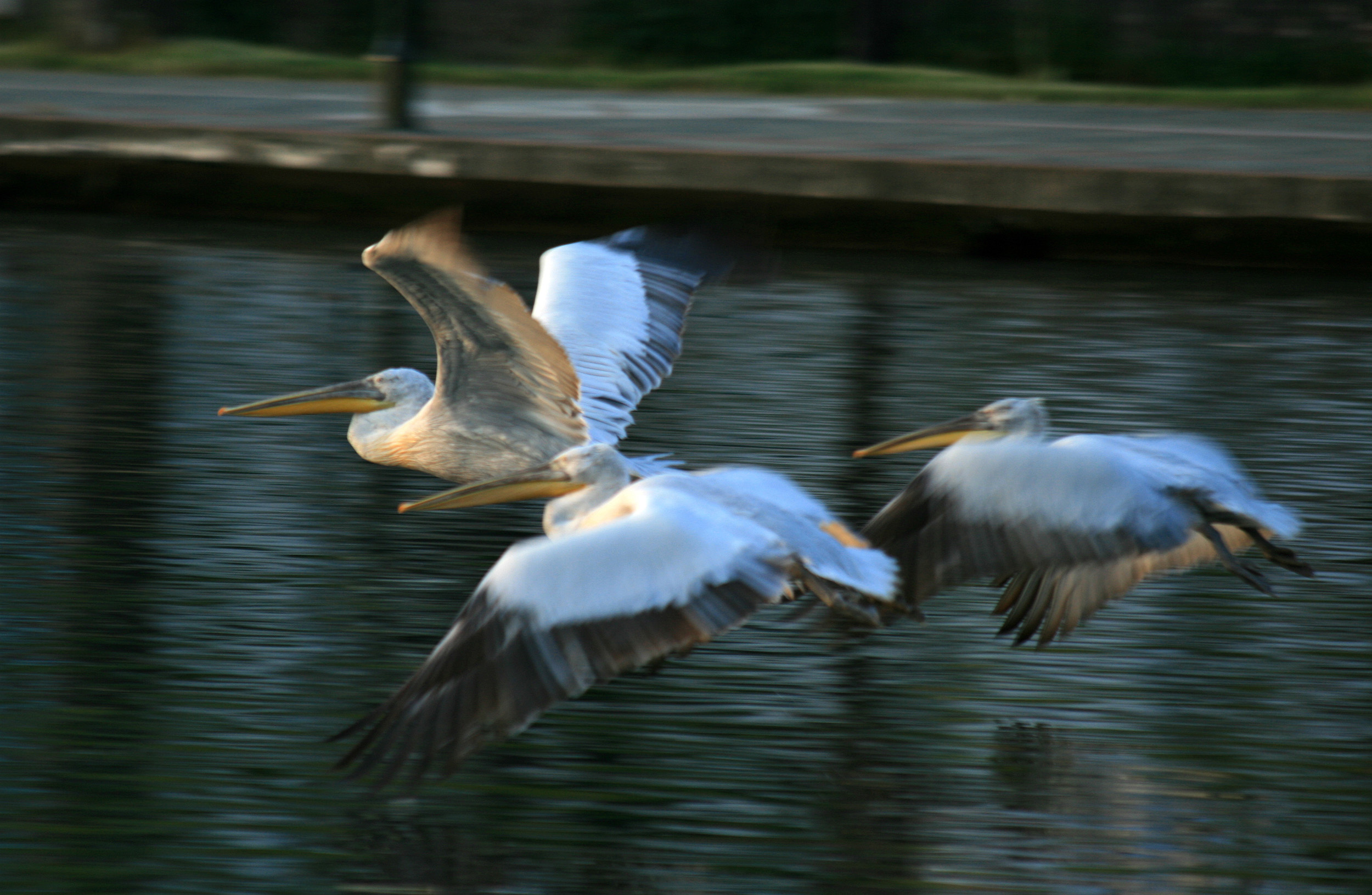 This is a photography of Natura 2000 protected area with ID GR1320001